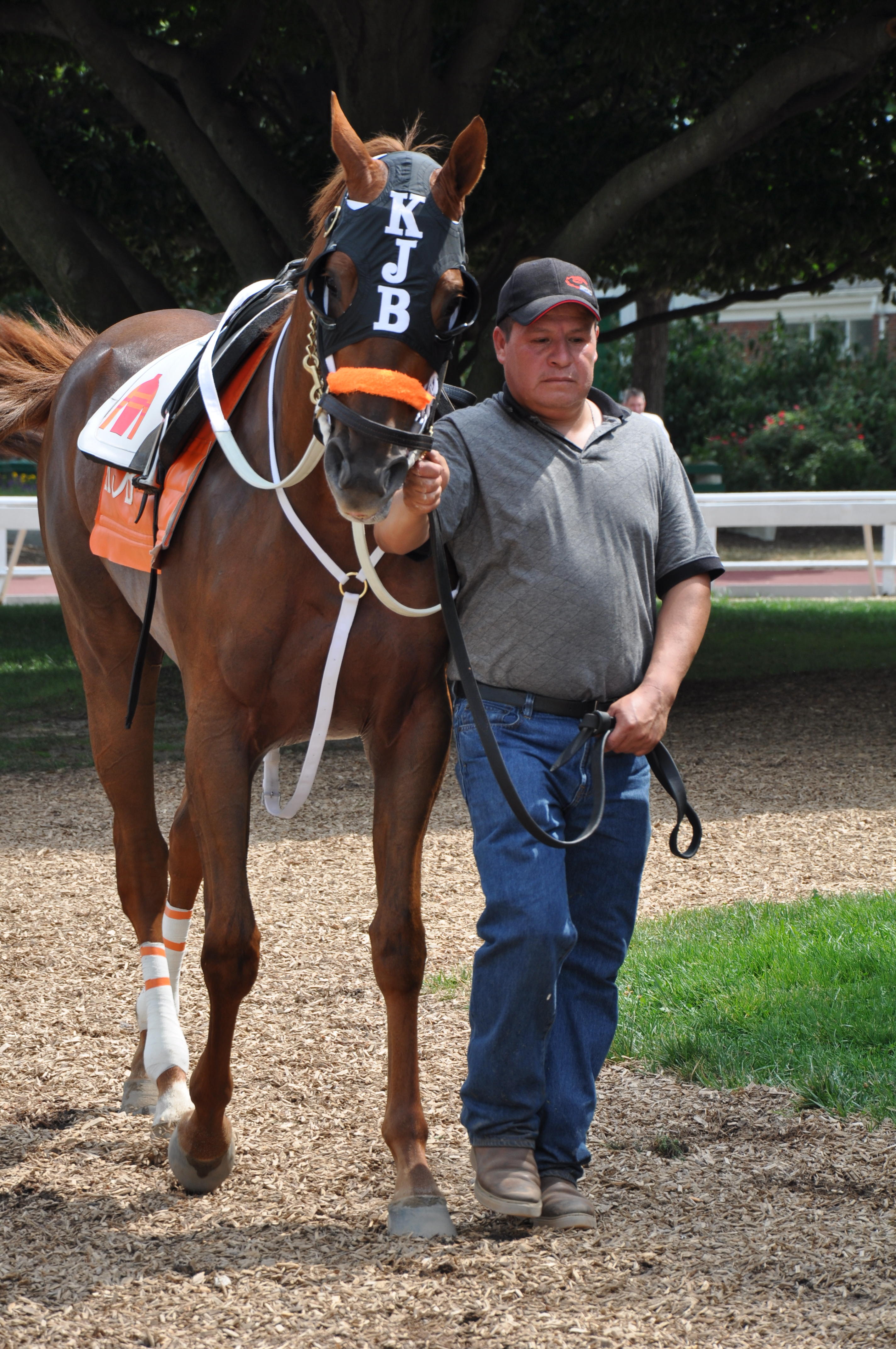 2011 Belmont Stakes winner, Ruler on Ice, at Monmouth Park in July 2011. The Thoroughbred competed in the 2011 Haskell Invitational Stakes on July 31, finishing third.